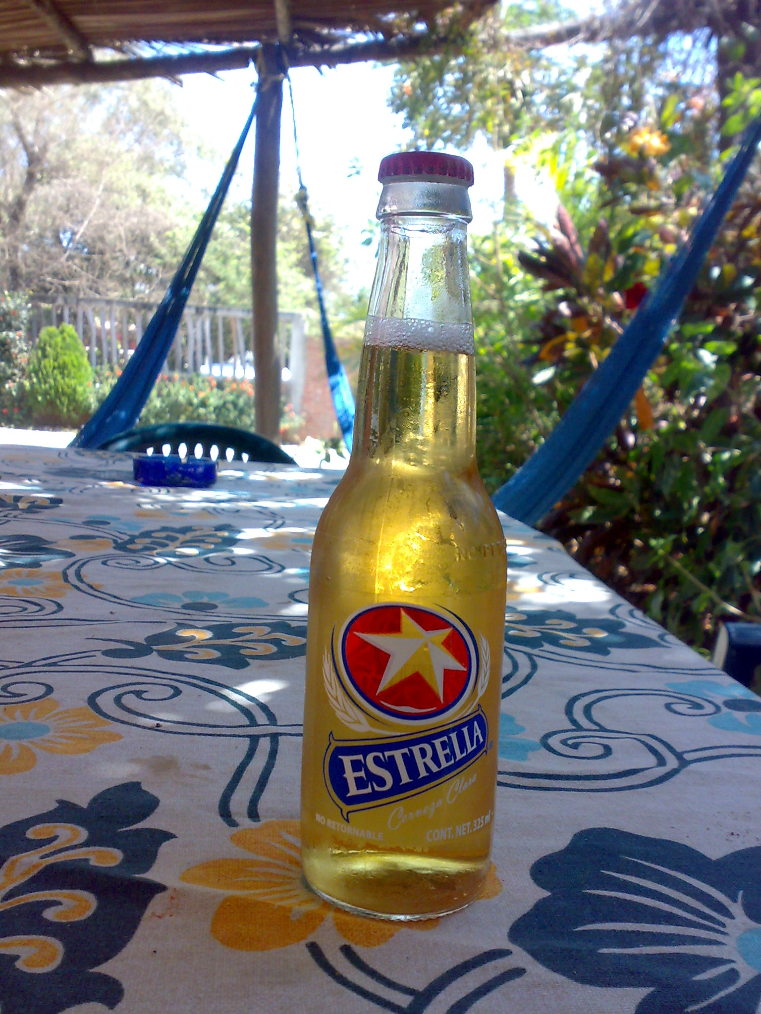 The beer Estrella. Picture taken by me.